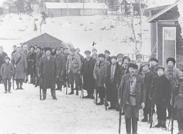 Ruovesi Red Guard in the Murole village of Ruovesi. The men killed in the war are marked with crosses.